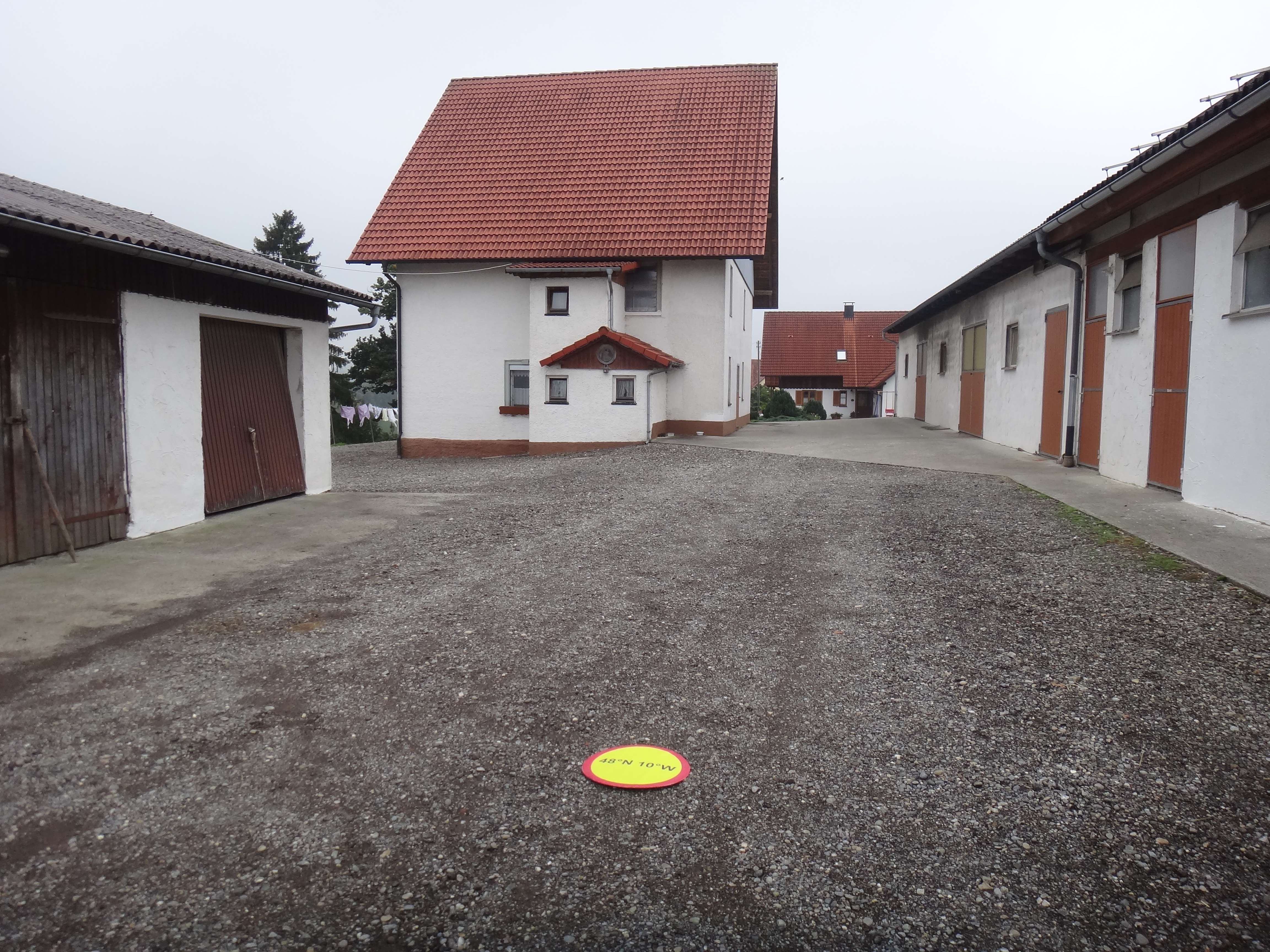 48°N 10°E Degree Confluence Project Spindelwag. Letter "W" on the disc is erroneous.